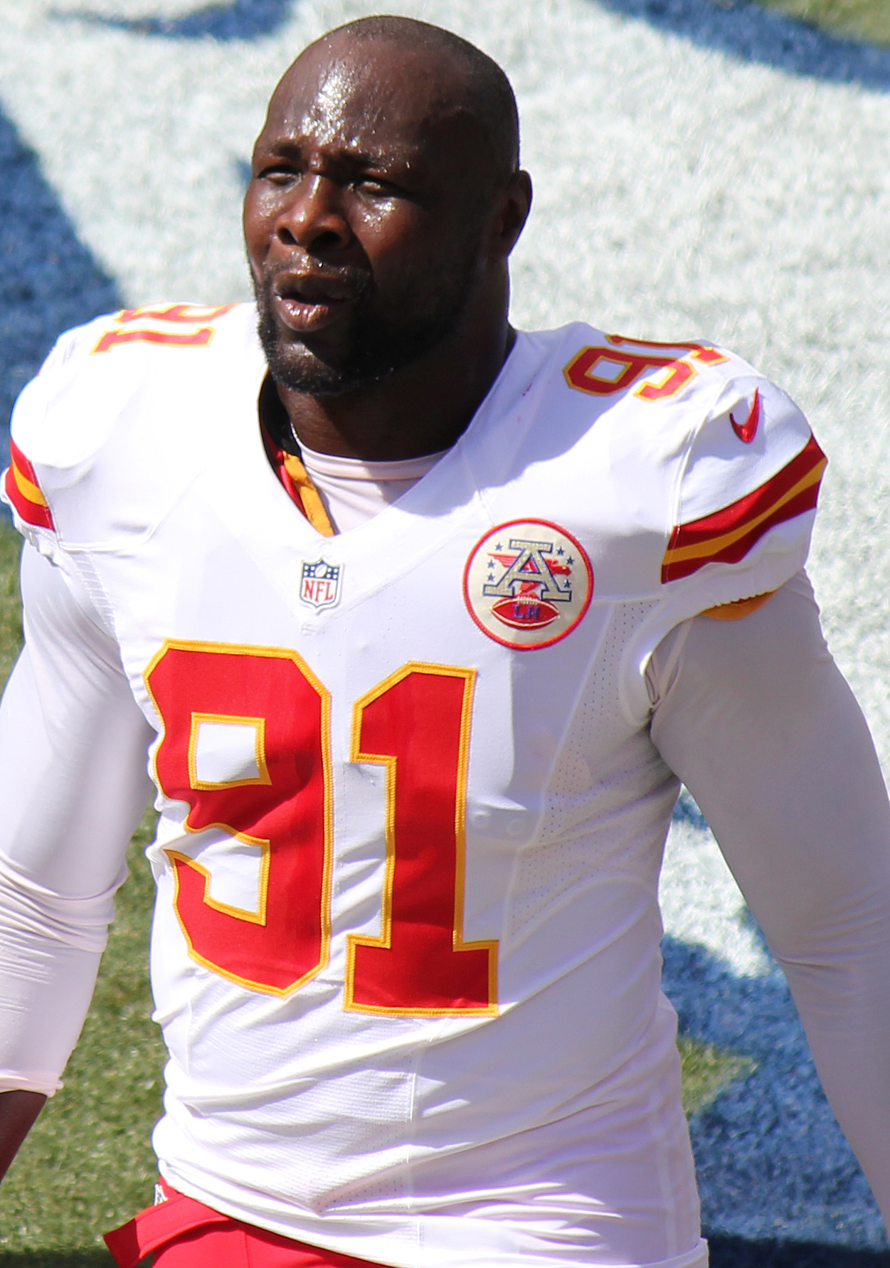 Tamba Hali, a player on the National Football League.